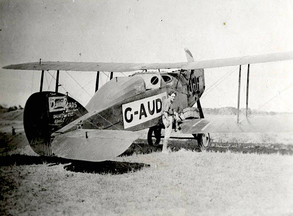 Ernest Brandon-Cremer, with Bristol Type 47 Tourer G-AUDF, self taken image 1922 (copyright allowable due to Australian copyright law)